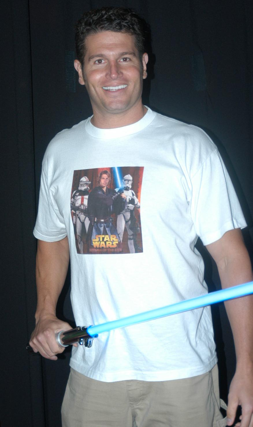 Howie Gordon, taken on at premiere of the movie "The Scorned" on 26 October 2005 Original Photo from used with permission (see here). Source is here